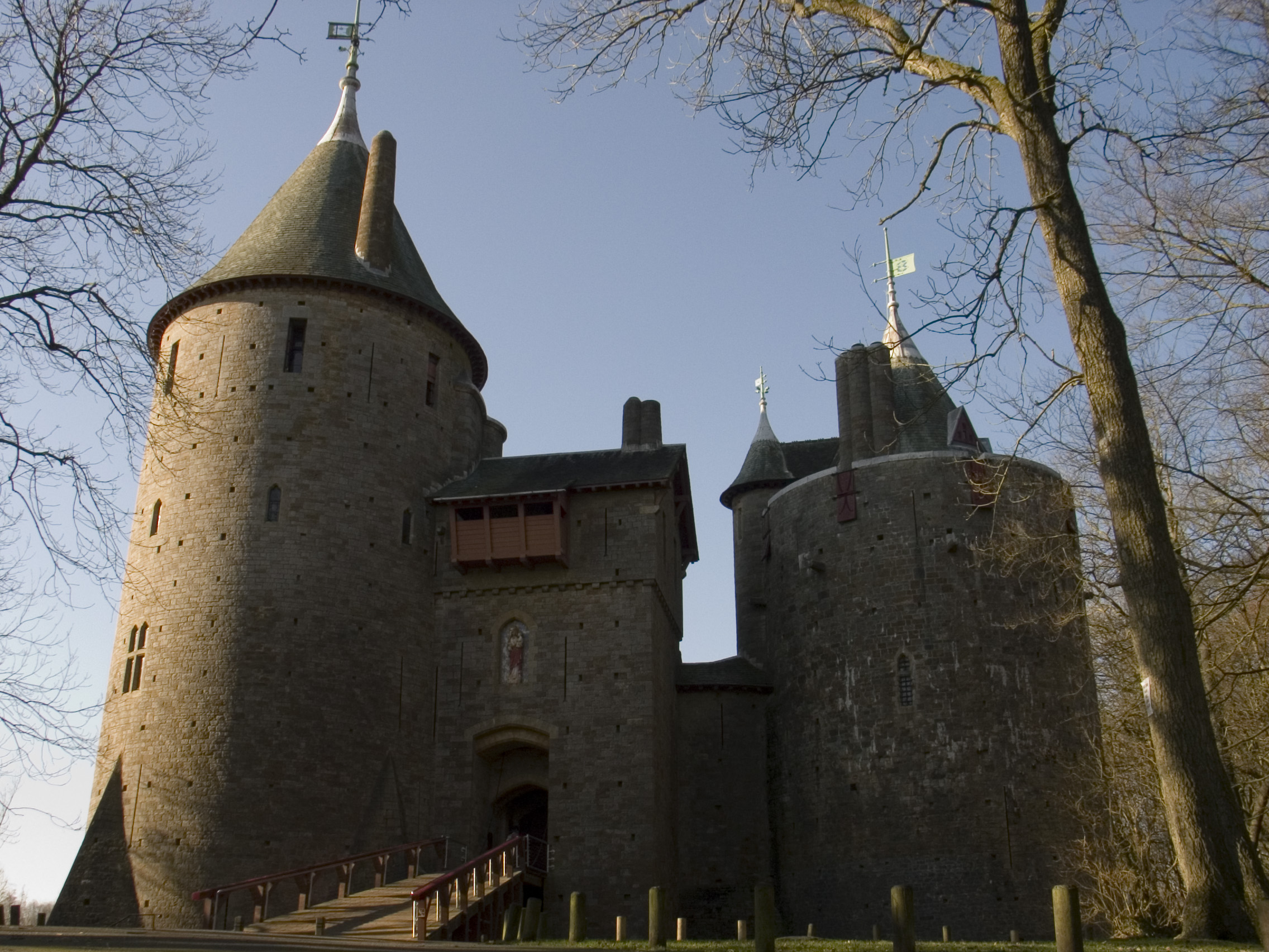 Castell Coch front view, late January around midday.